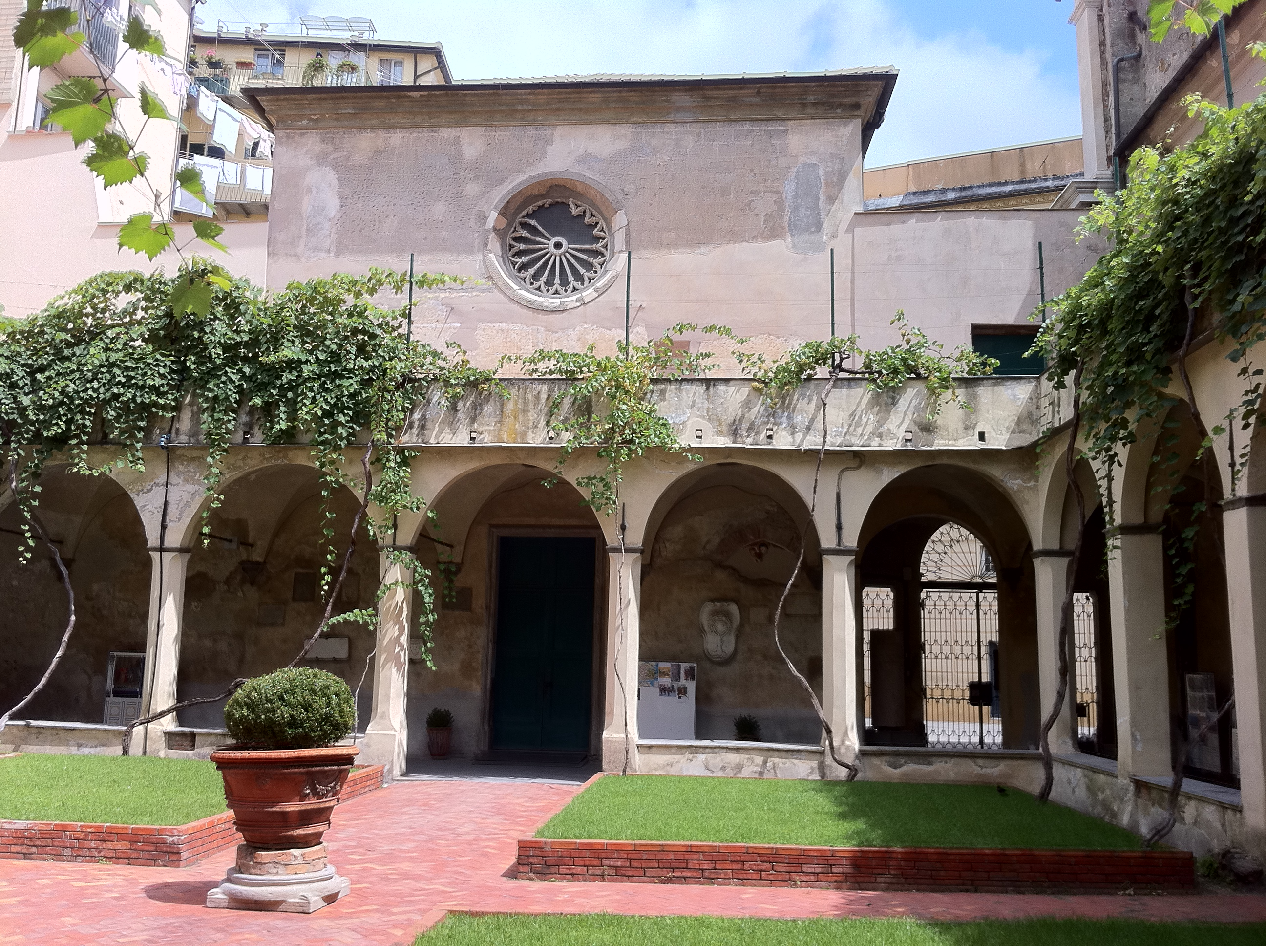 Facade of the Sistine Chapel, Savoy